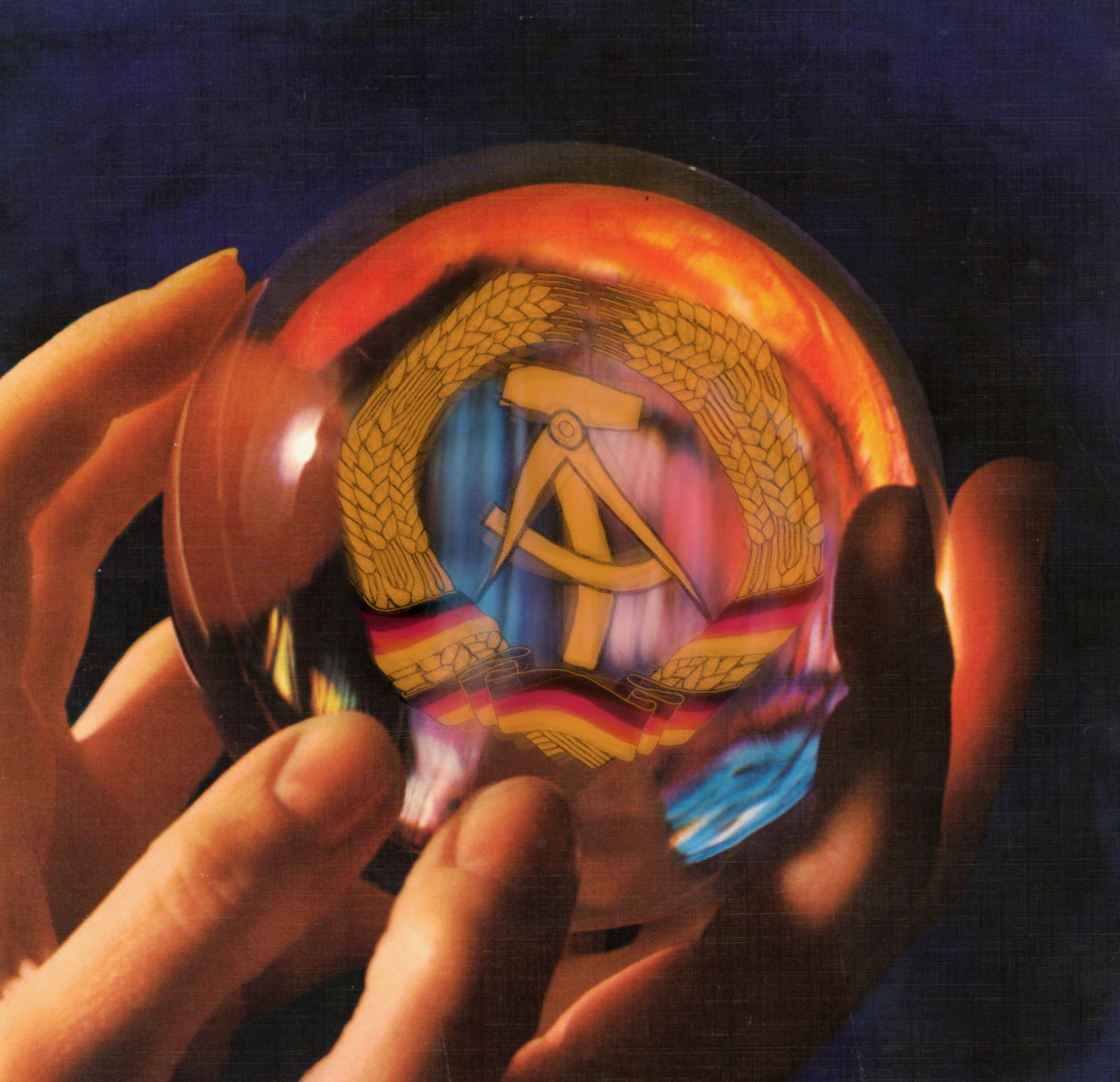 Okkulte DDR